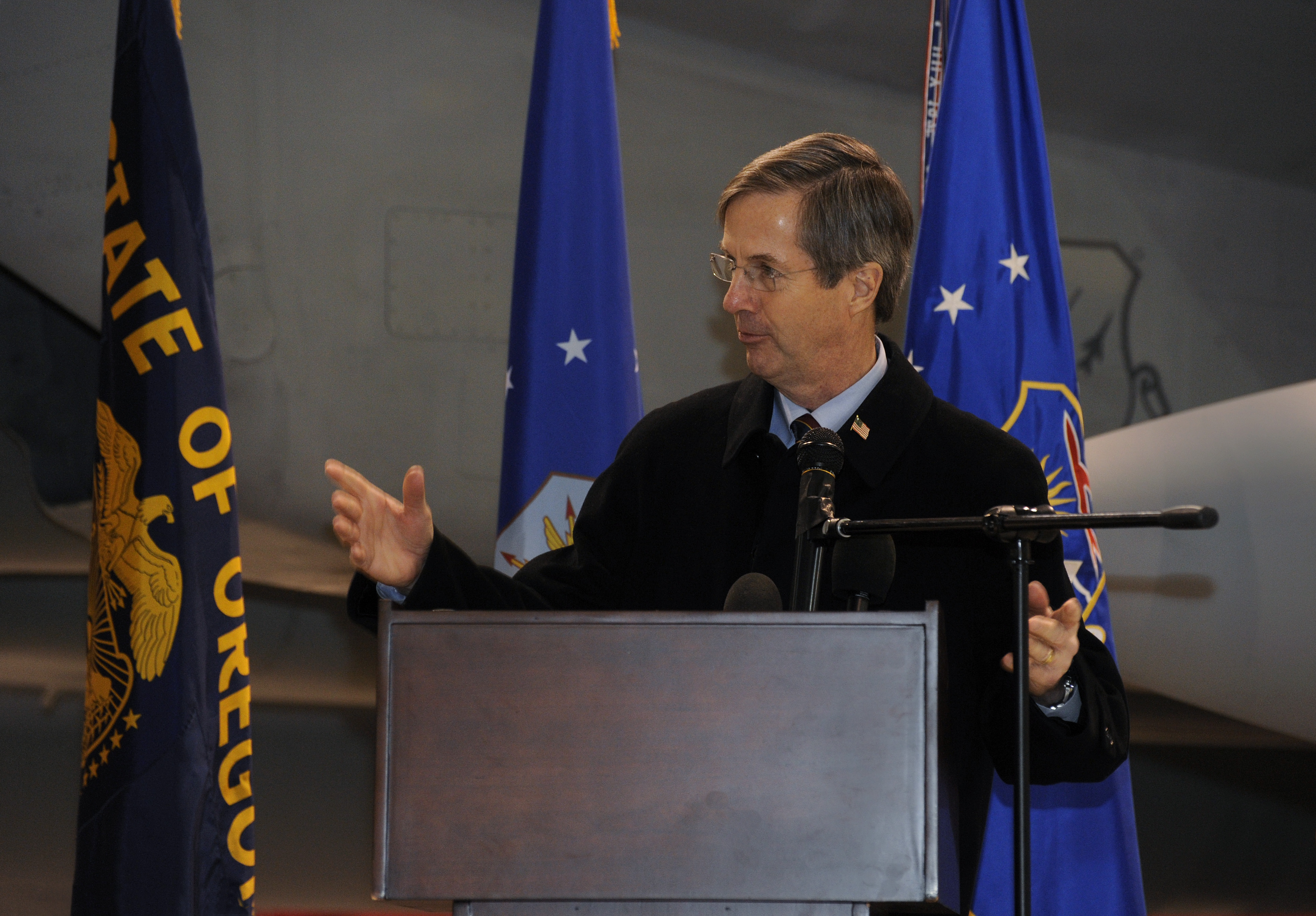 Port of Portland, Oregon executive director Bill Wyatt speaks at the Port of Portland lease signing ceremony held at the Portland Air National Guard Base in Portland, Oregon. The 50-year lease agreement allows the Oregon Air National Guard's 142nd Fighter Wing to continue operations at the Portland International Airport.